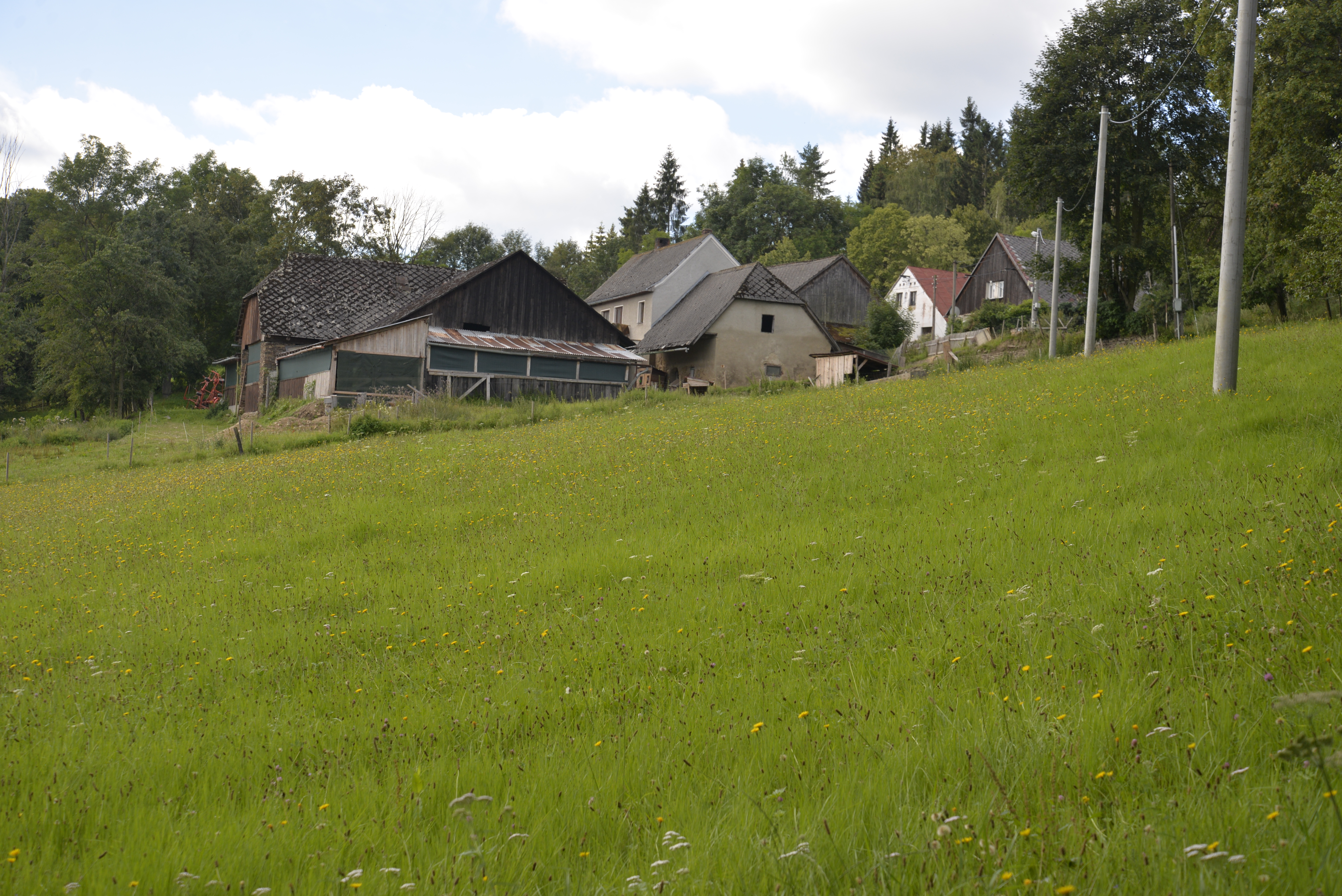 Nová Víska - small village, part of Petrovice u Sušice in Klatovy District